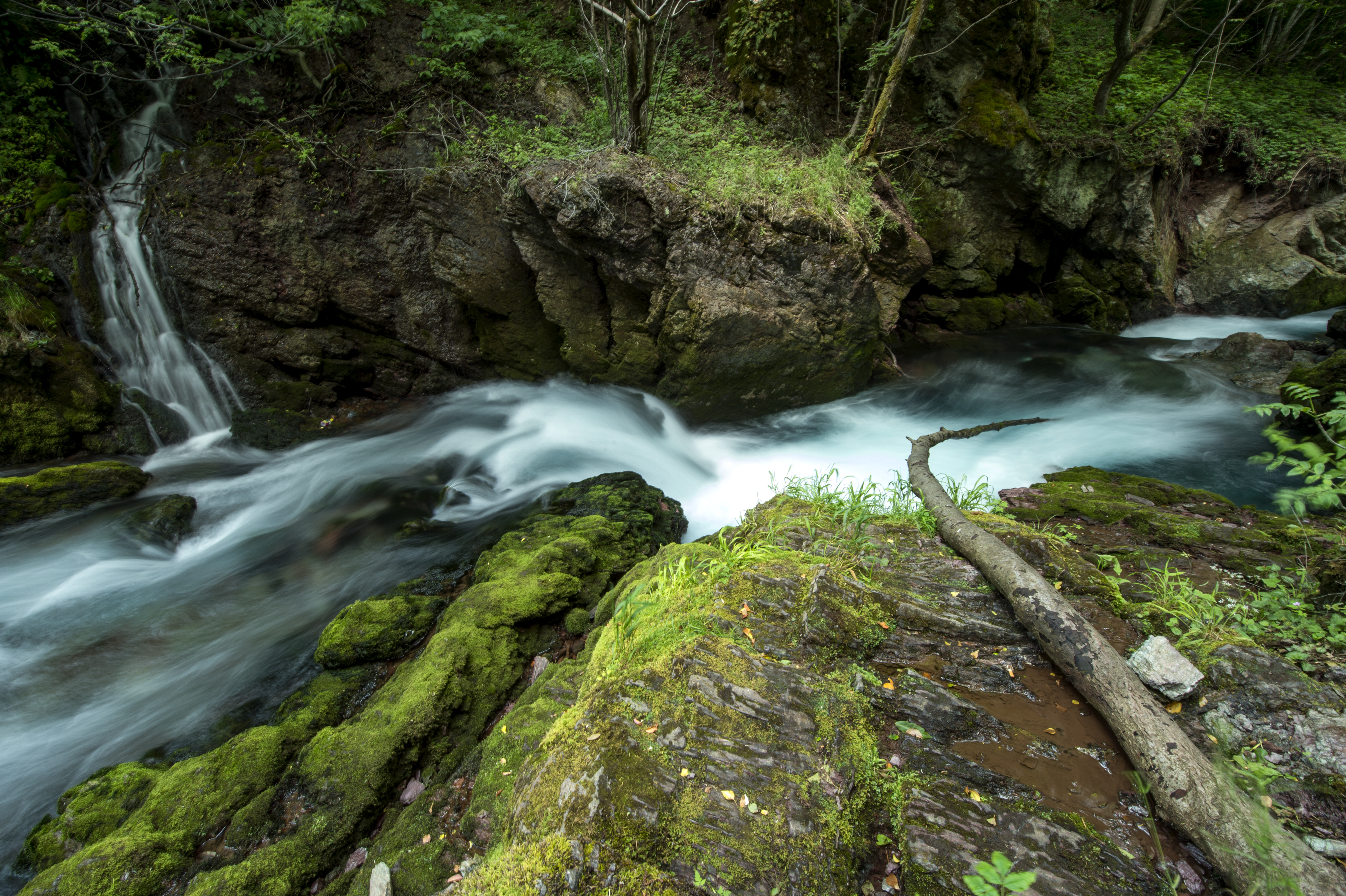 Source of the White Drin, Radavc Cave, Peja